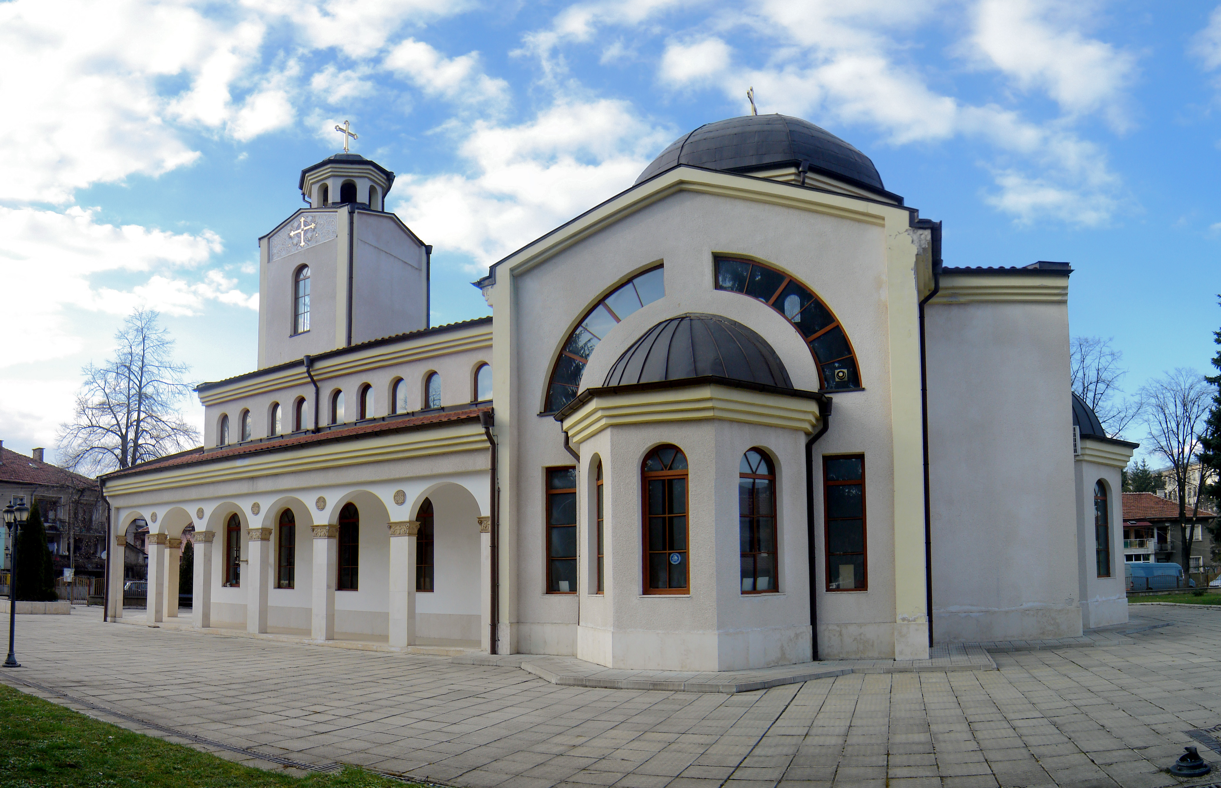 The church "Dormition of the Mother of God church" in Botevgrad, Bulgaria.